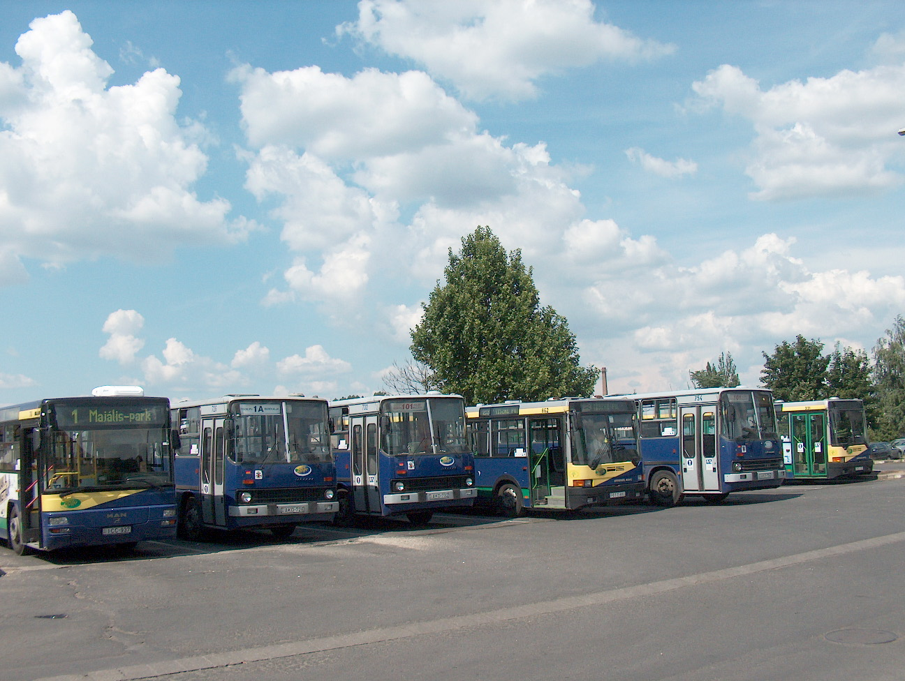 Bus garage in Miskolc